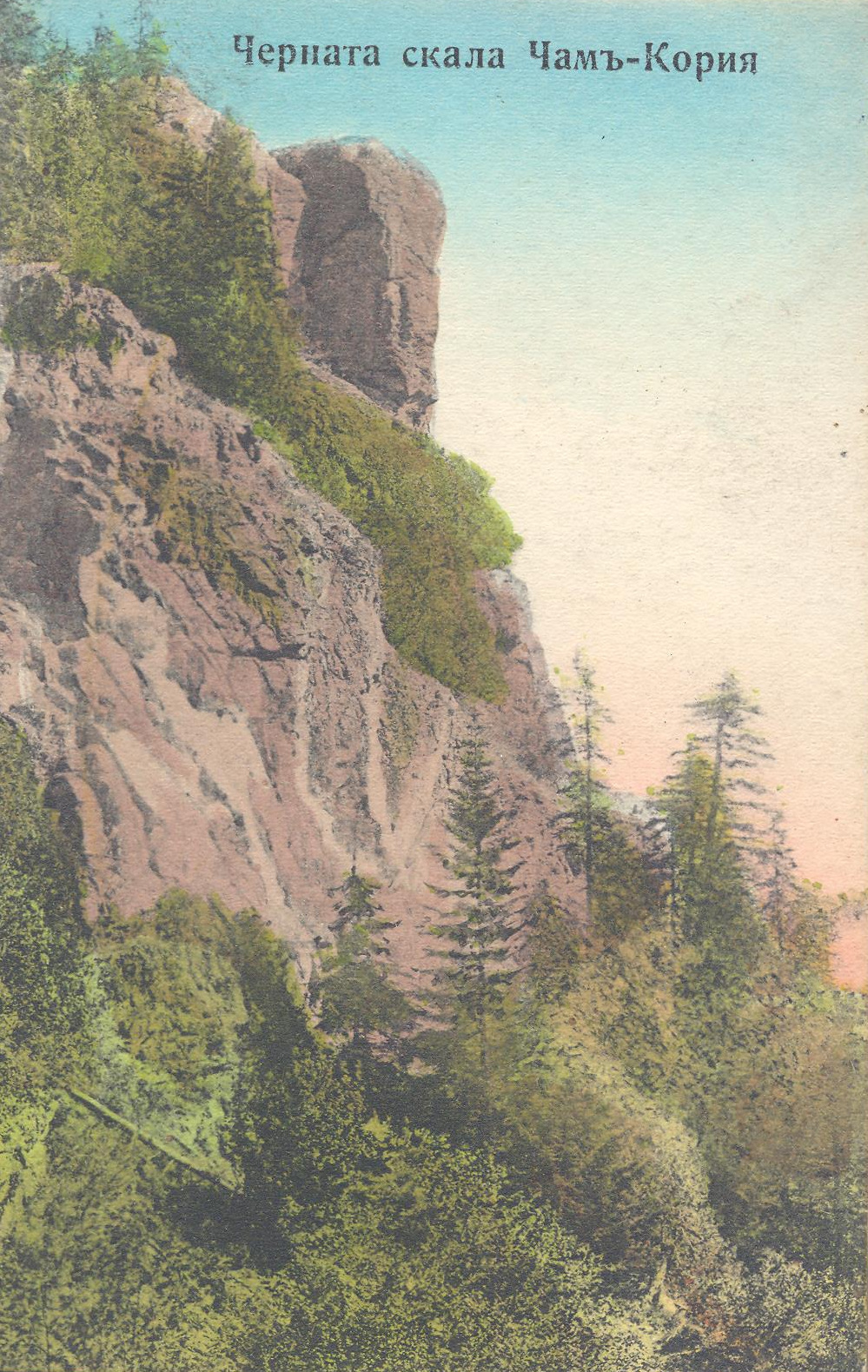 The Black Rock, postcard from Chamkoria, Bulgaria.